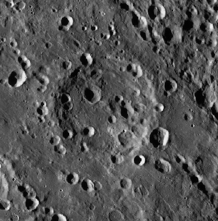 LRO-WAC, crater Michelson overrun by Orientale ejecta, also numerous secondaries strewn in the field